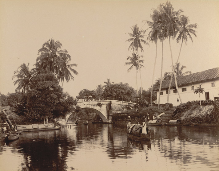 Stone bridge, Alleppey Photograph taken about 1900 by the Government photographer, Zacharias D'Cruz of the stone bridge in the town of Alleppey, in the erstwhile Travancore. . The town owes its origin to Raja Kesava Das, the illustrious Dewan in the latter part of the 18th century. Often called the 'Venice of Travancore', it is almost surrounded by sea and backwaters and the many canals that intersect the town, carrying 'vallams' or country-craft laden with merchandise. The port was opened in 1762, when Kesava Das built three ships for trade with Calcutta and Bombay, and was chosen